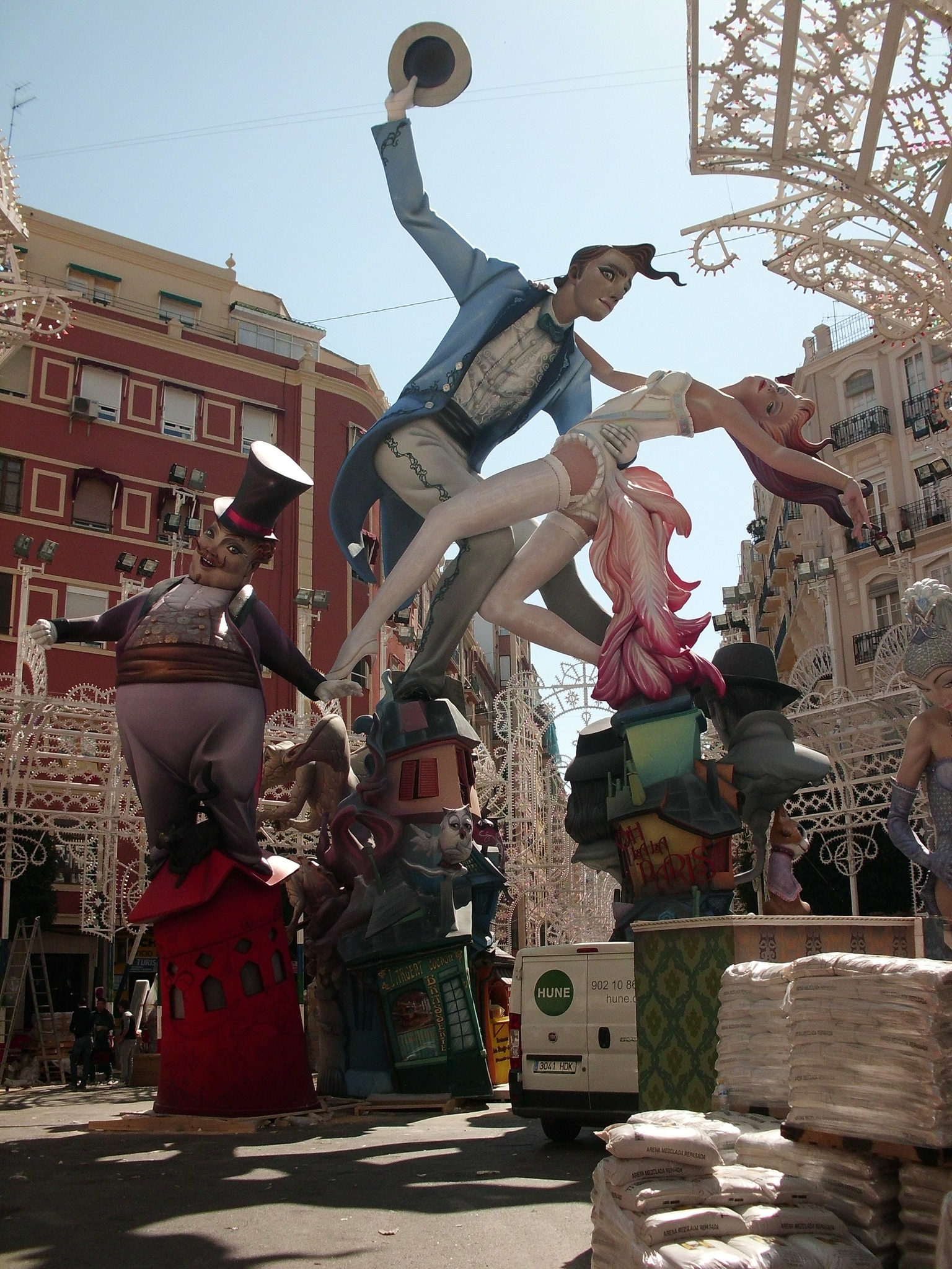 Lifting the FALLA.